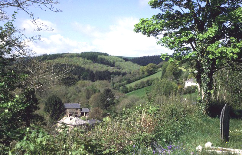 The View from Herodsfoot Church yard